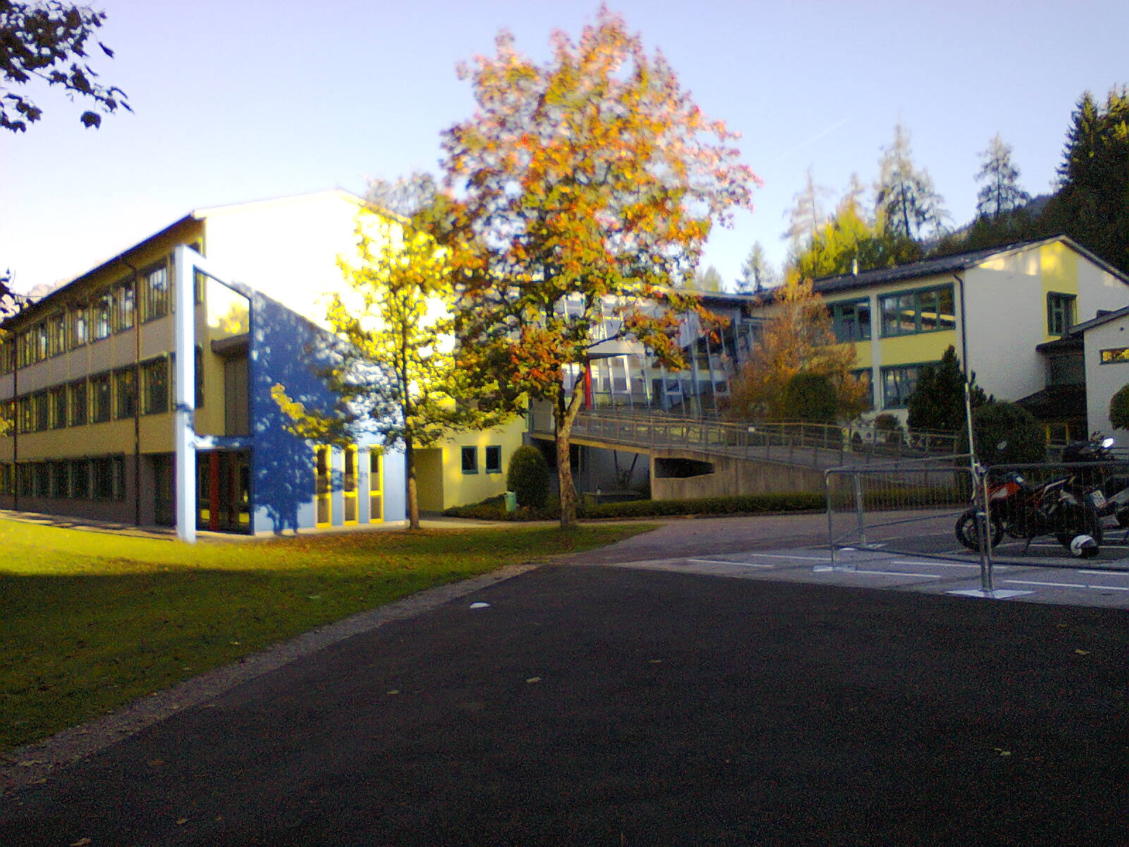 BEA Saalfelden 1